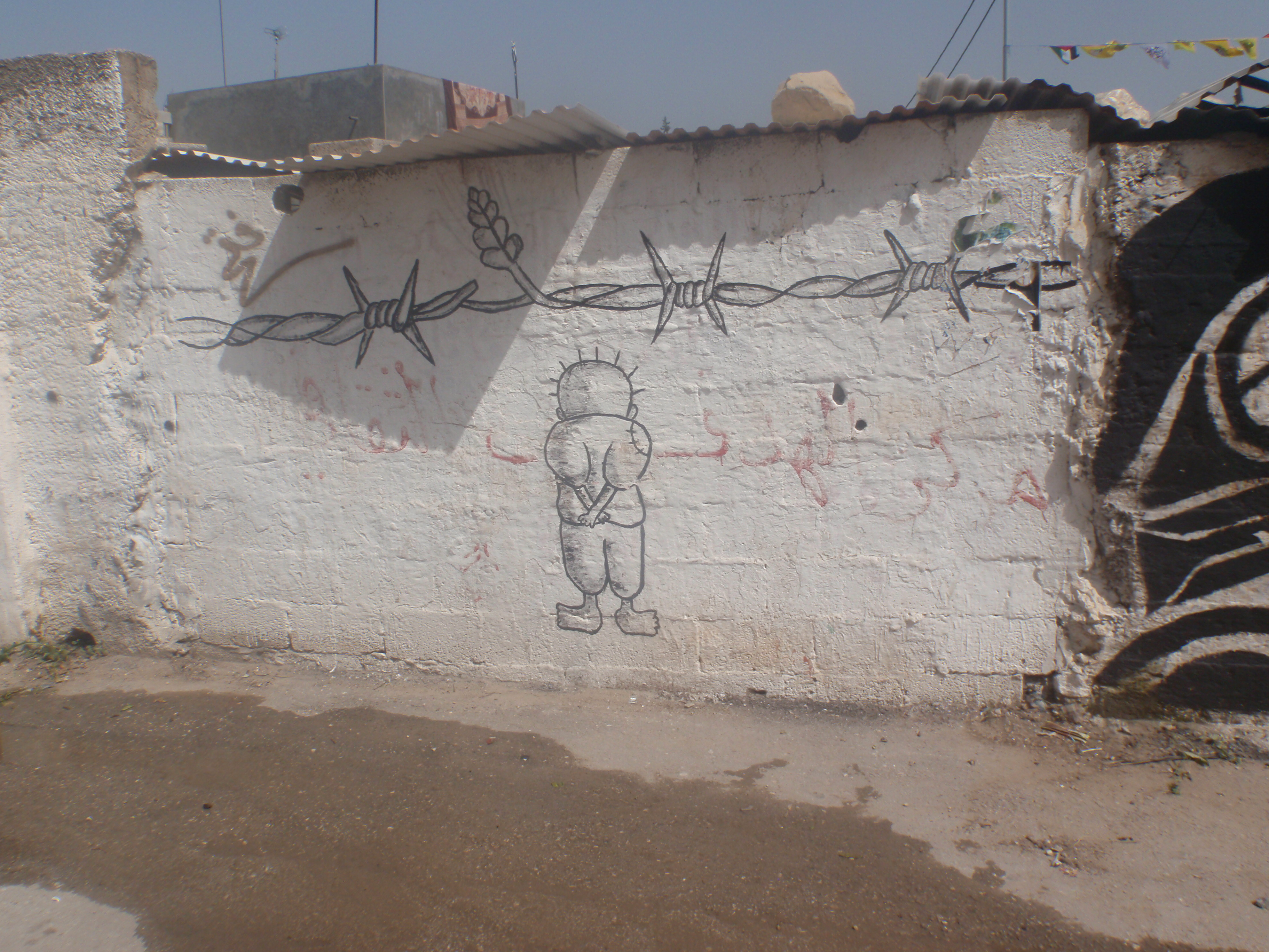 Handala, on a wall in Bilin